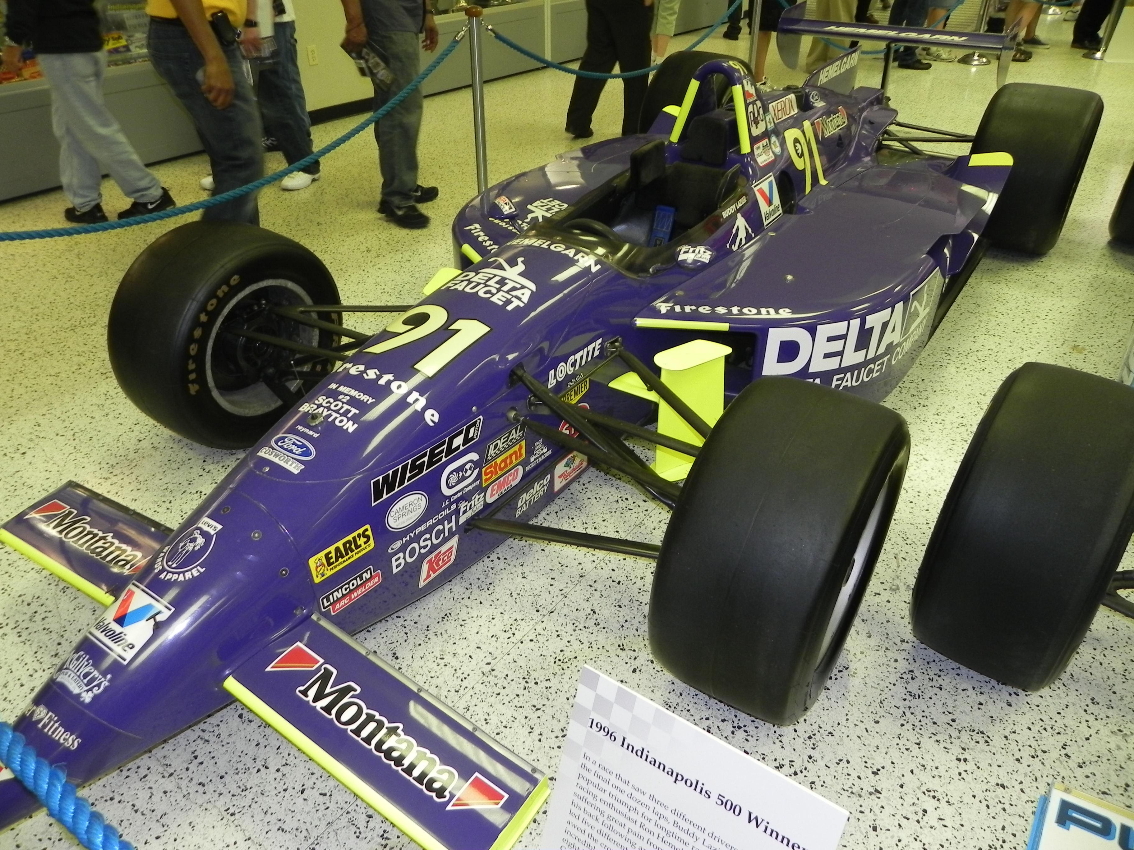 Image of the winning car of the 1996 Indianapolis 500 (Buddy Lazier). Photo was taken at the Indianapolis Motor Speedway Hall of Fame Museum, during the month of May 2011, at the 100th Anniversary "Ultimate Indianapolis 500 Winning Car Collection."